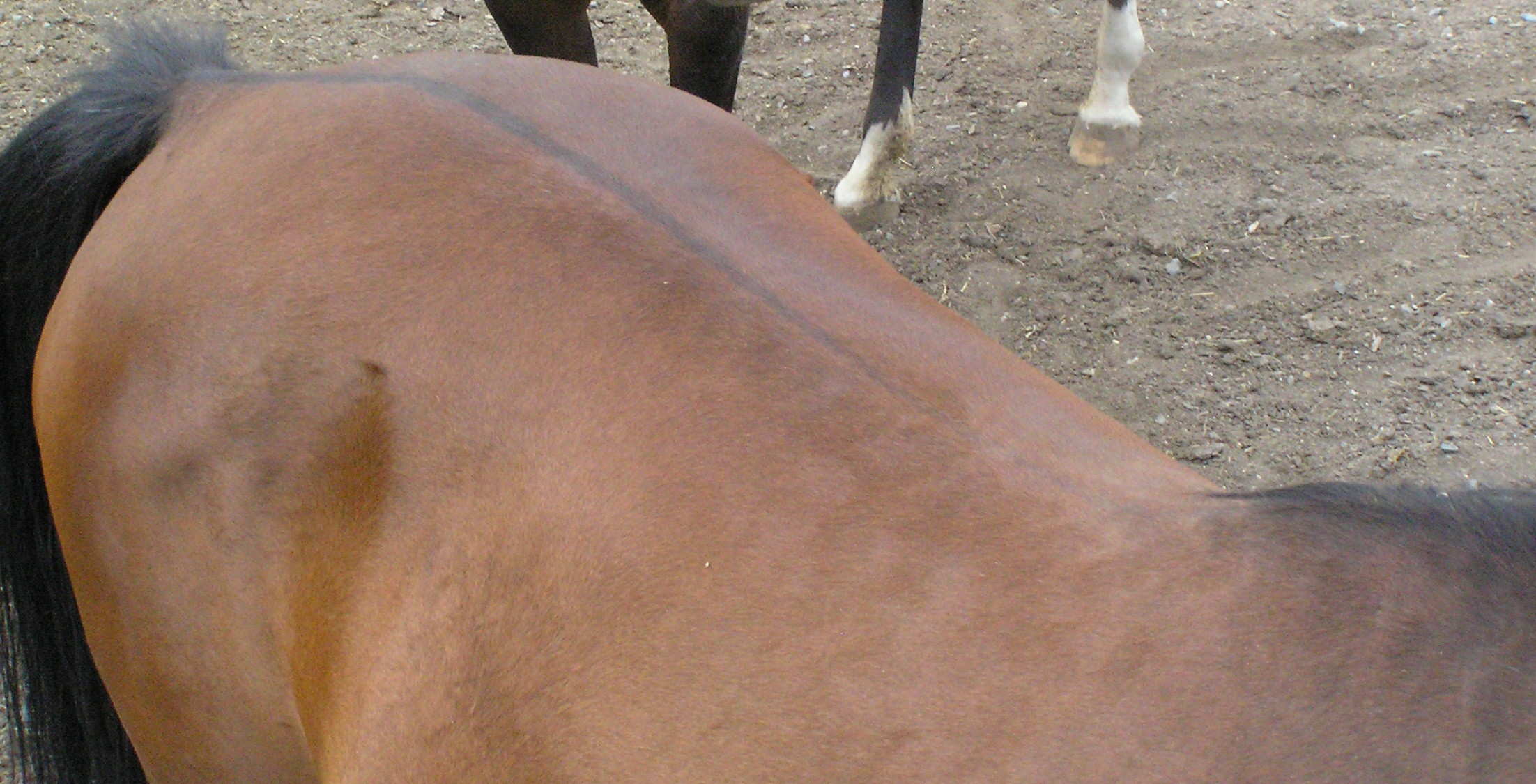 This photo is of a genetically bay horse, showing the faint dorsal counterstriping that is common on some bays. This horse is NOT a dun and this dorsal stripe does not reflect the presence of the dun gene.